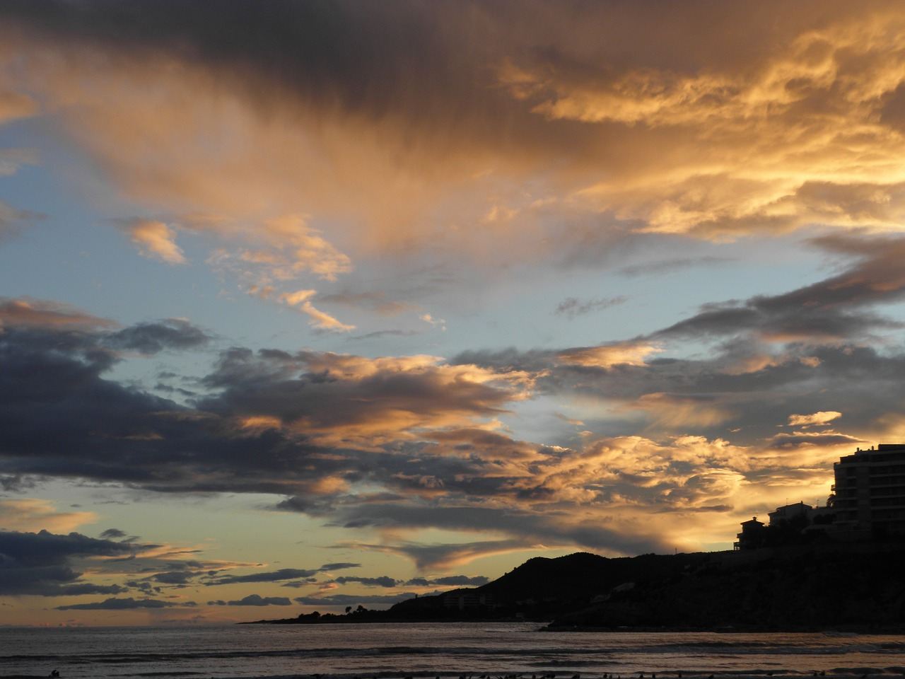 Climatology